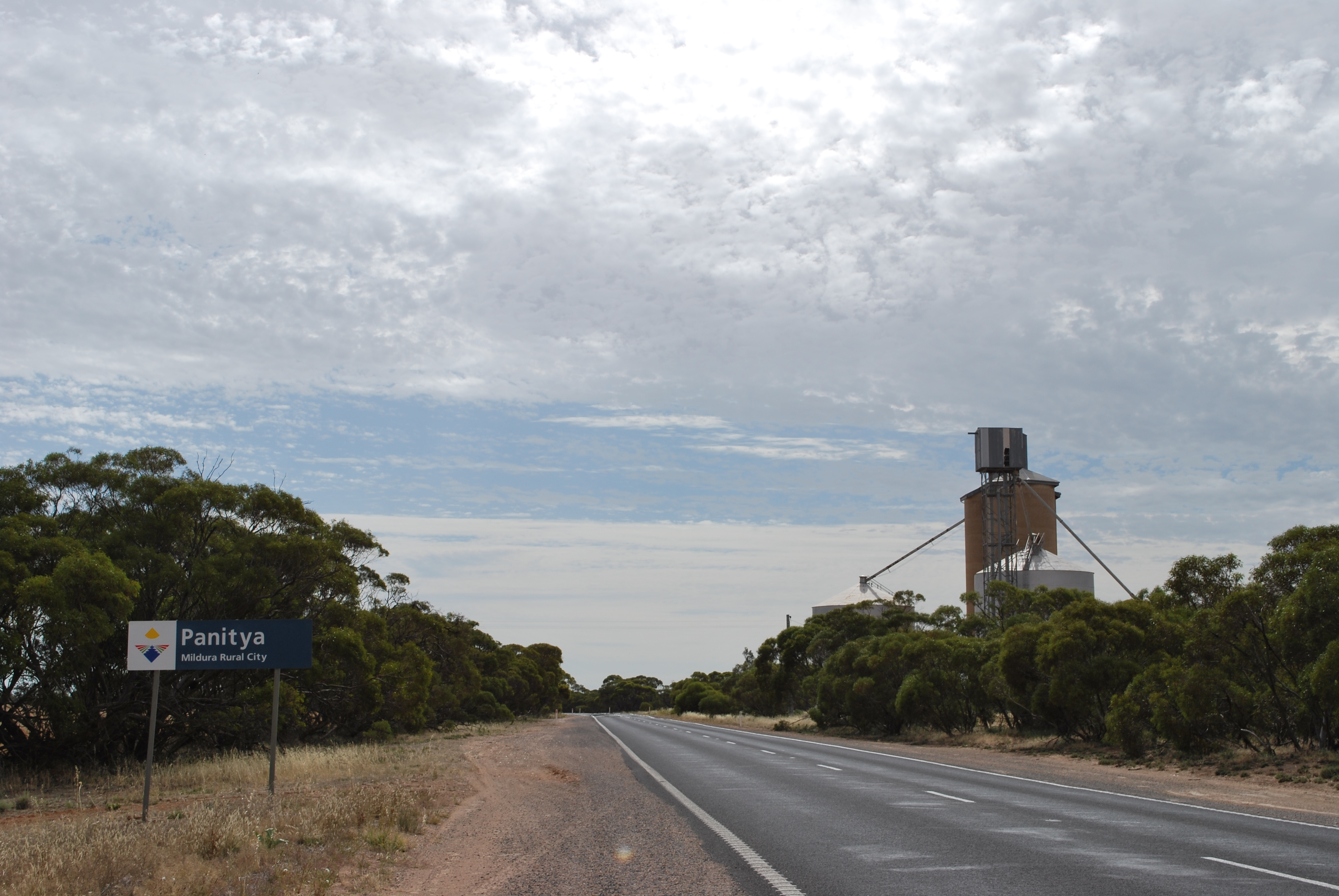 Town entry sign at Panitya, Victoria